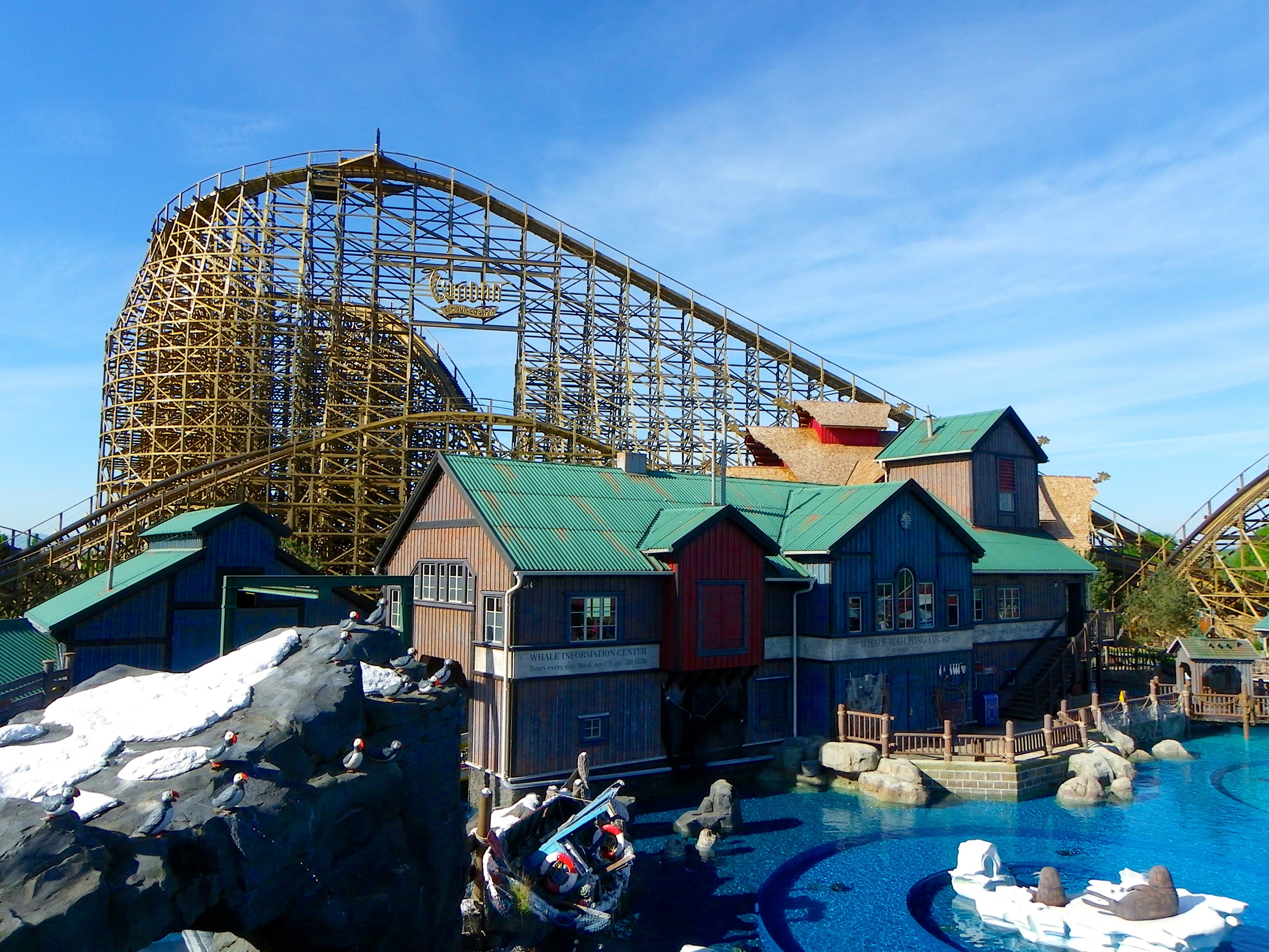 Wodan Timbur Coaster, Europa-Park, Rust, Baden-Württemberg, Germany.